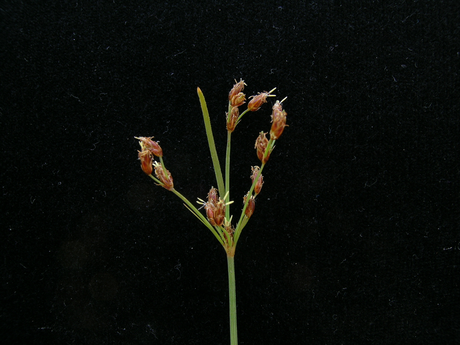 Native, warm-season, short-lived perennial, tufted sedge; stems usually few and 10-40 cm tall arising from very short rhizomes. Leaves are much shorter than the stems and very variable in width (1.5-5 mm). Ligules form a dense fringe of hairs. Flowerheads have few to many red-brown spikelets (to 5 mm long), which are solitary or clustered on branches that are usually less than 5 cm long. Flowering is in summer and autumn. Found in moister habitats; more abundant following wet springs and summers. Native biodiversity. Palatable, but of minor value to livestock as it is usually a small component of most pastures and produces little biomass. Readily grazed by wallabies and wombats. Decreases under heavy continuous stocking. Seeds were a food source for aborigines and stems were made into bags.